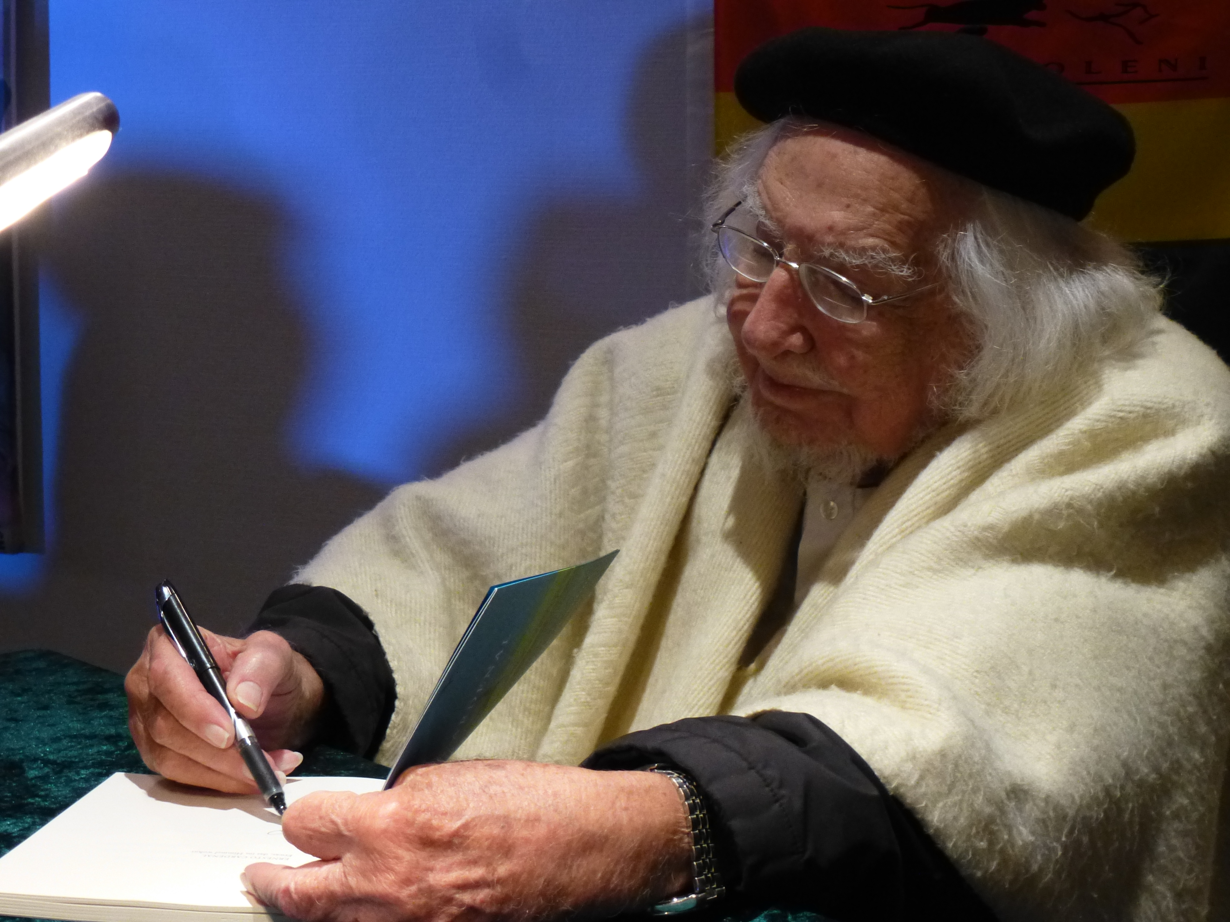 Ernesto Cardenal (born 1925-01-20) on 2014-11-15 during a reading in the Protestant parish center in Polch (district of Mayen-Koblenz, Rhineland-Palatinate, Germany)